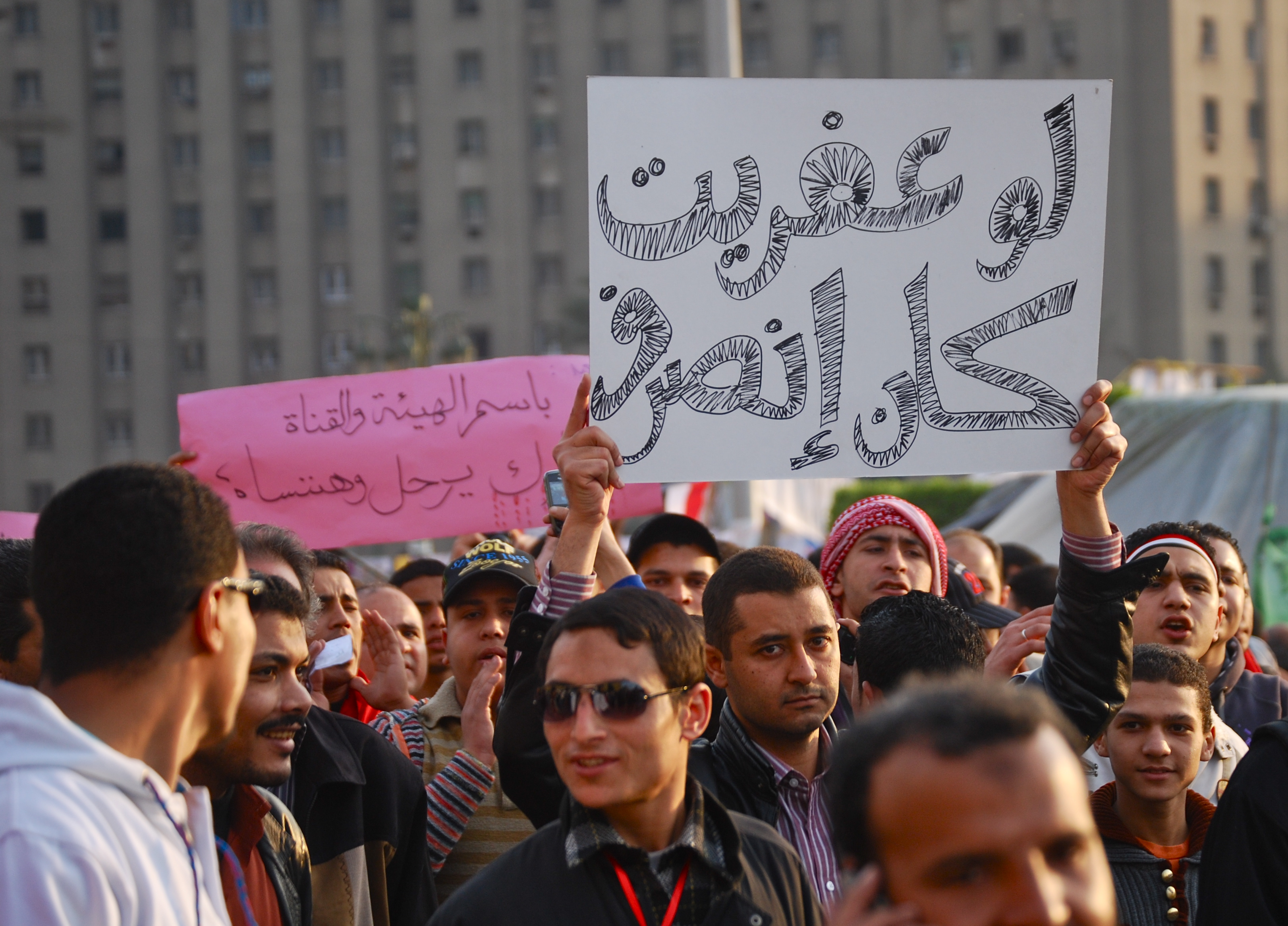 Egyptian Revolution (Day 16) - Not giving up.